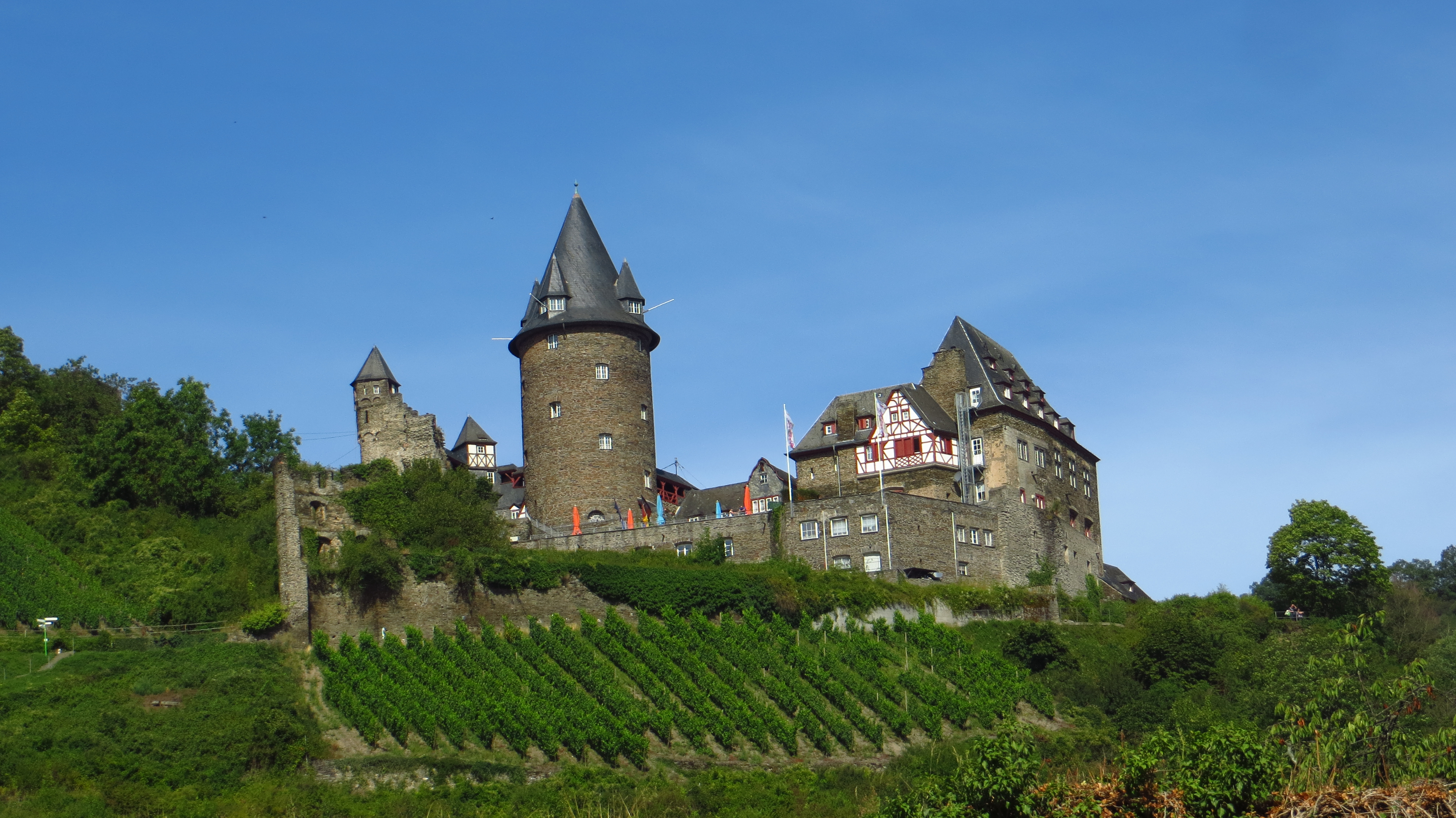 View on Stahleck castle from Bacharach